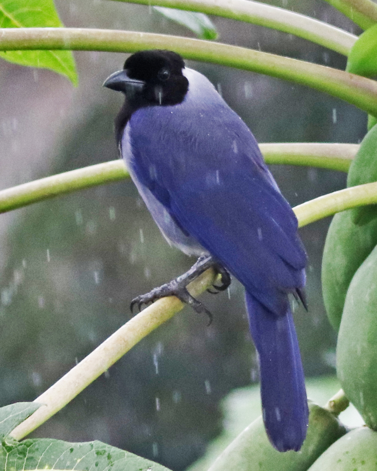 photo of a Violaceous Jay in the rain taken at San Jorge Sumaco Balo near Loreto, Ecuador